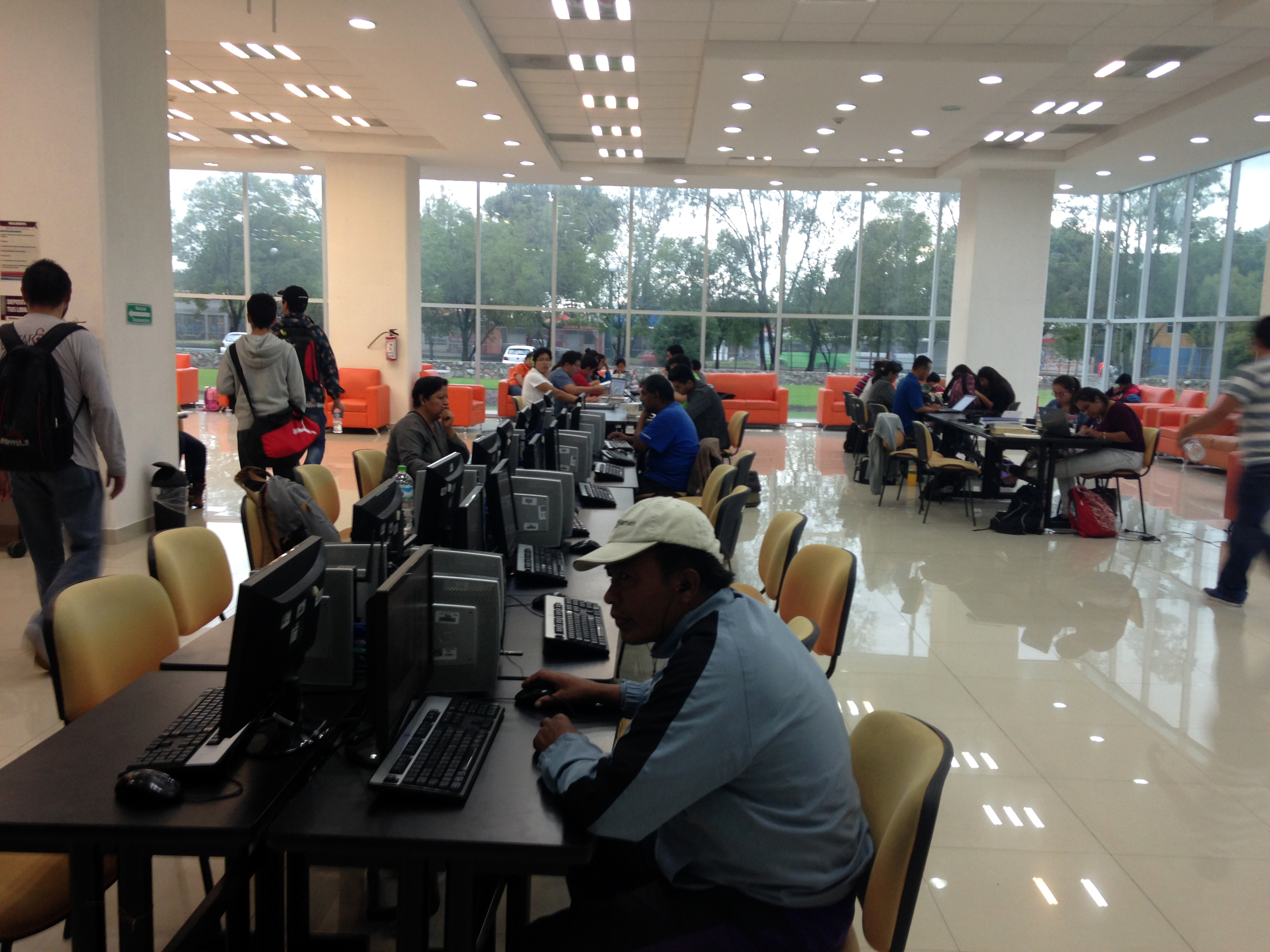 24/7 open public library consulting area, BUAP, Puebla city, Mexico.